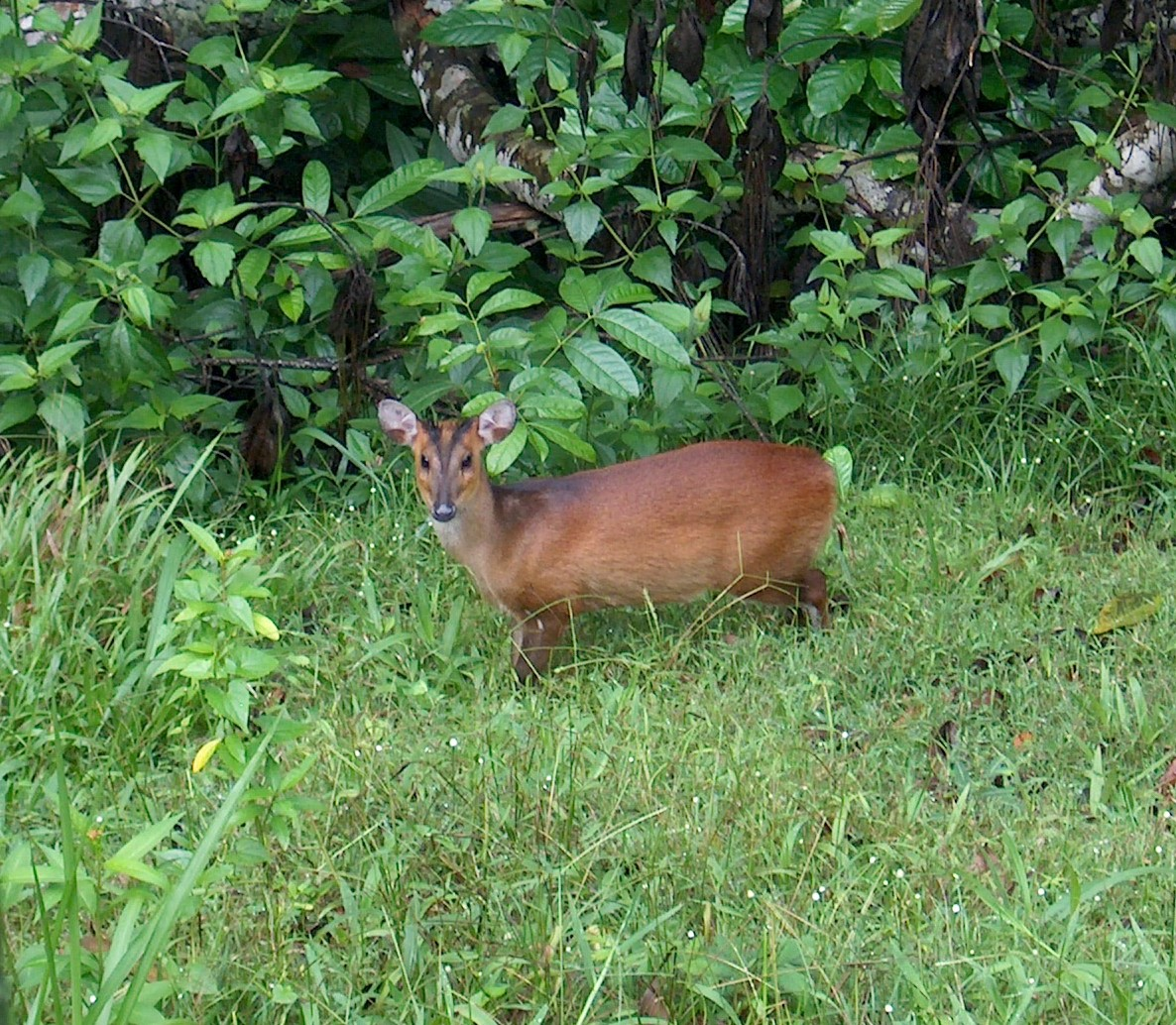 Indian Muntjac, female, in Udawattakele, Sri Lanka